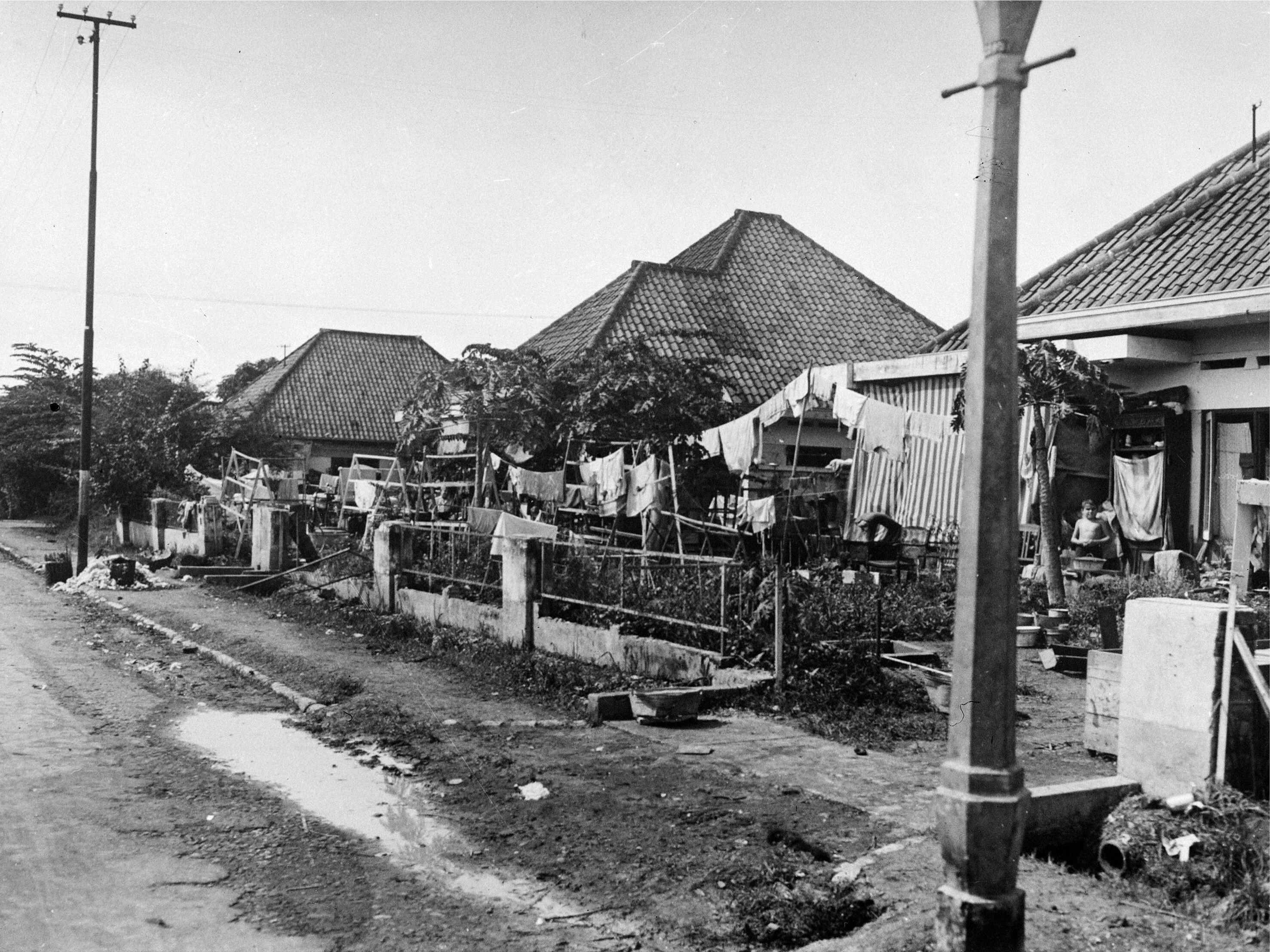 Internment in Batavia during the Japanese occupation